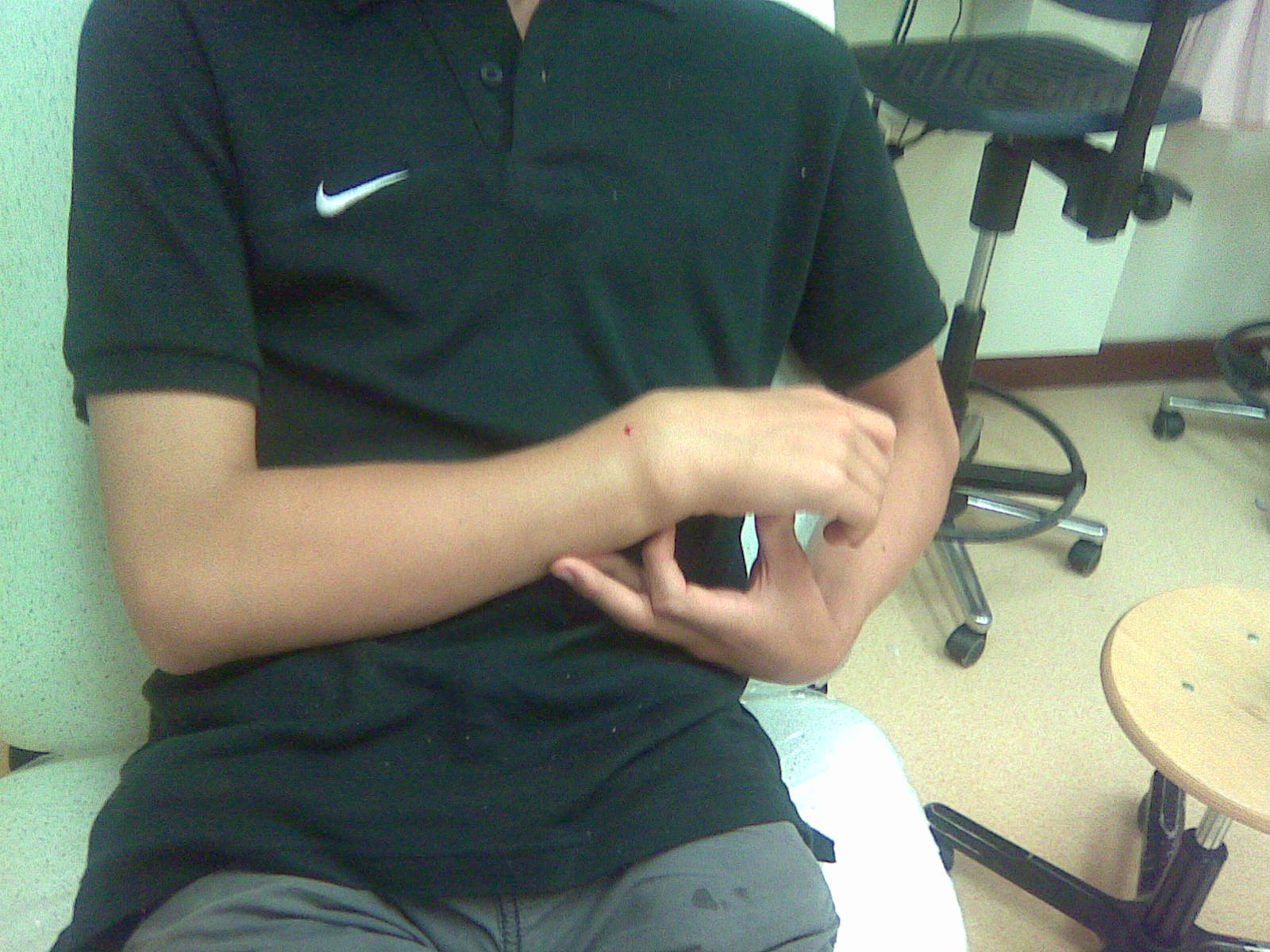 Colles' fracture, sometimes referred to as a "dinner fork" or "bayonet" deformity due to the shape of the resultant forearm